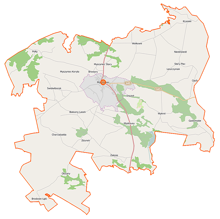 Map of Gmina Myszyniec, PolandThis map of Myszyniec (gmina) was created from OpenStreetMap project data, collected by the community. This map may be incomplete, and may contain errors. Don't rely solely on it for navigation.